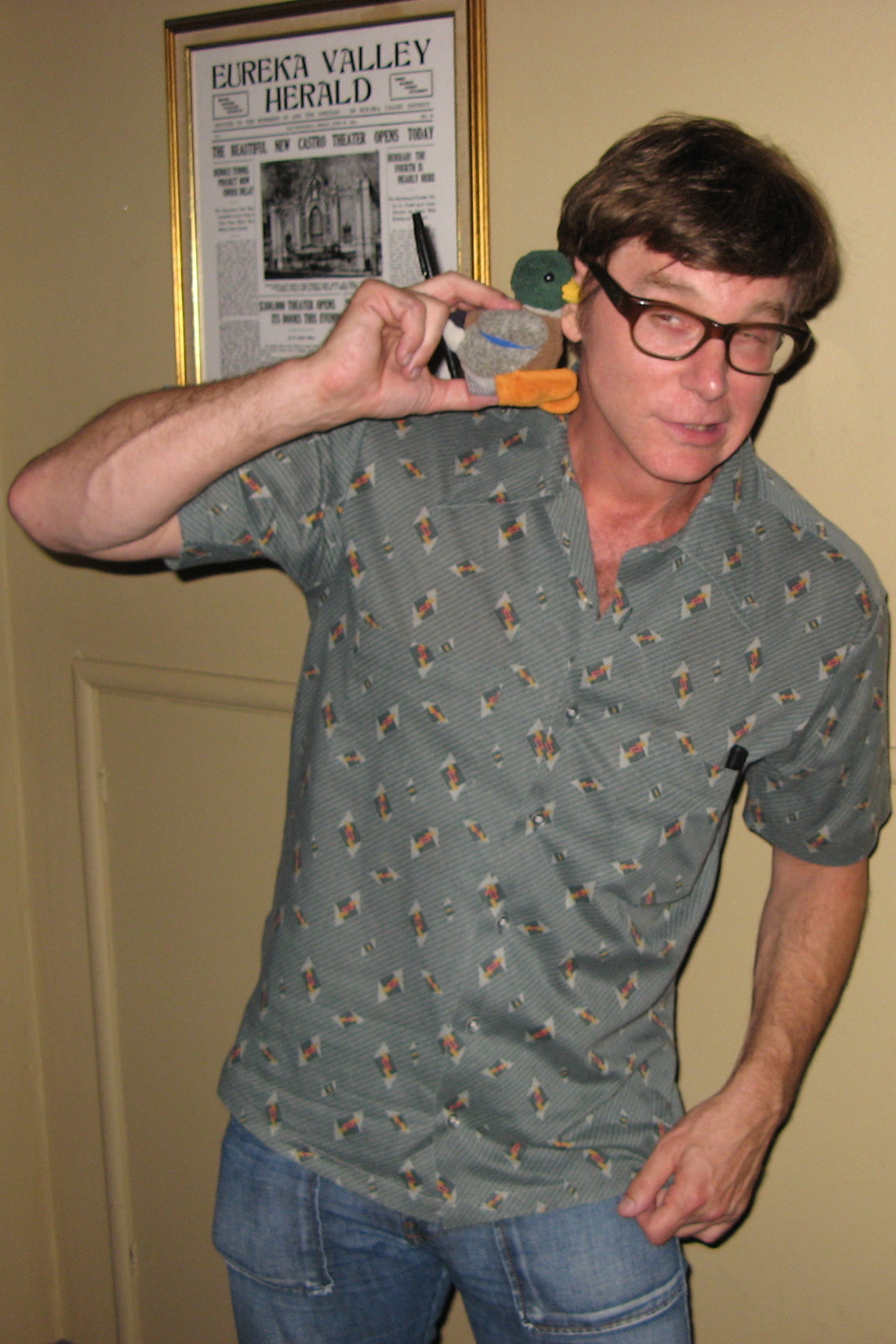 John Kricfalusi at the Castro Theatre in San Francisco